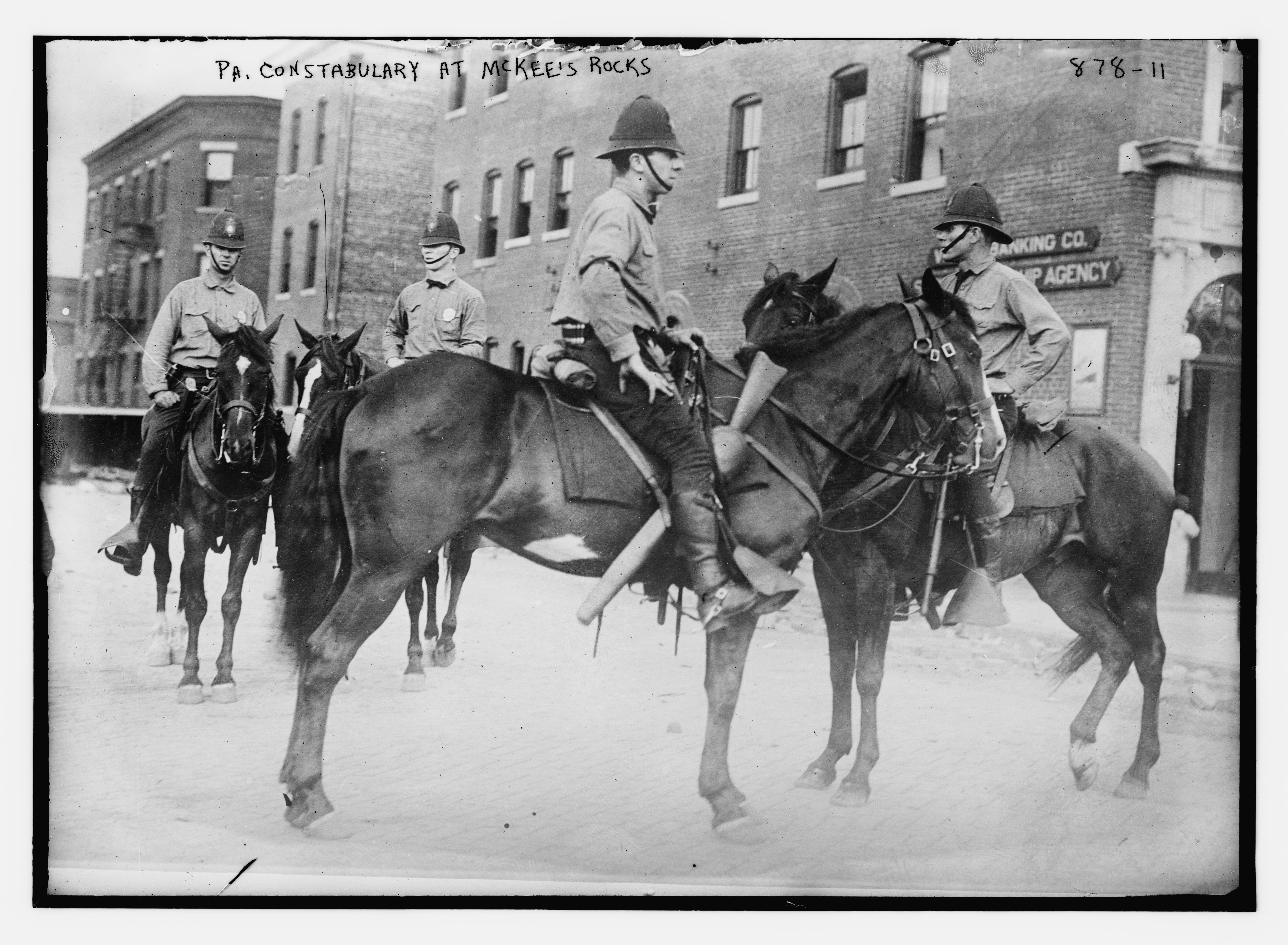 Title: Pennsylvania constabulary, mounted on horses, at McKee's Rock Abstract/medium: 1 negative : glass ; 5 x 7 in. or smaller.